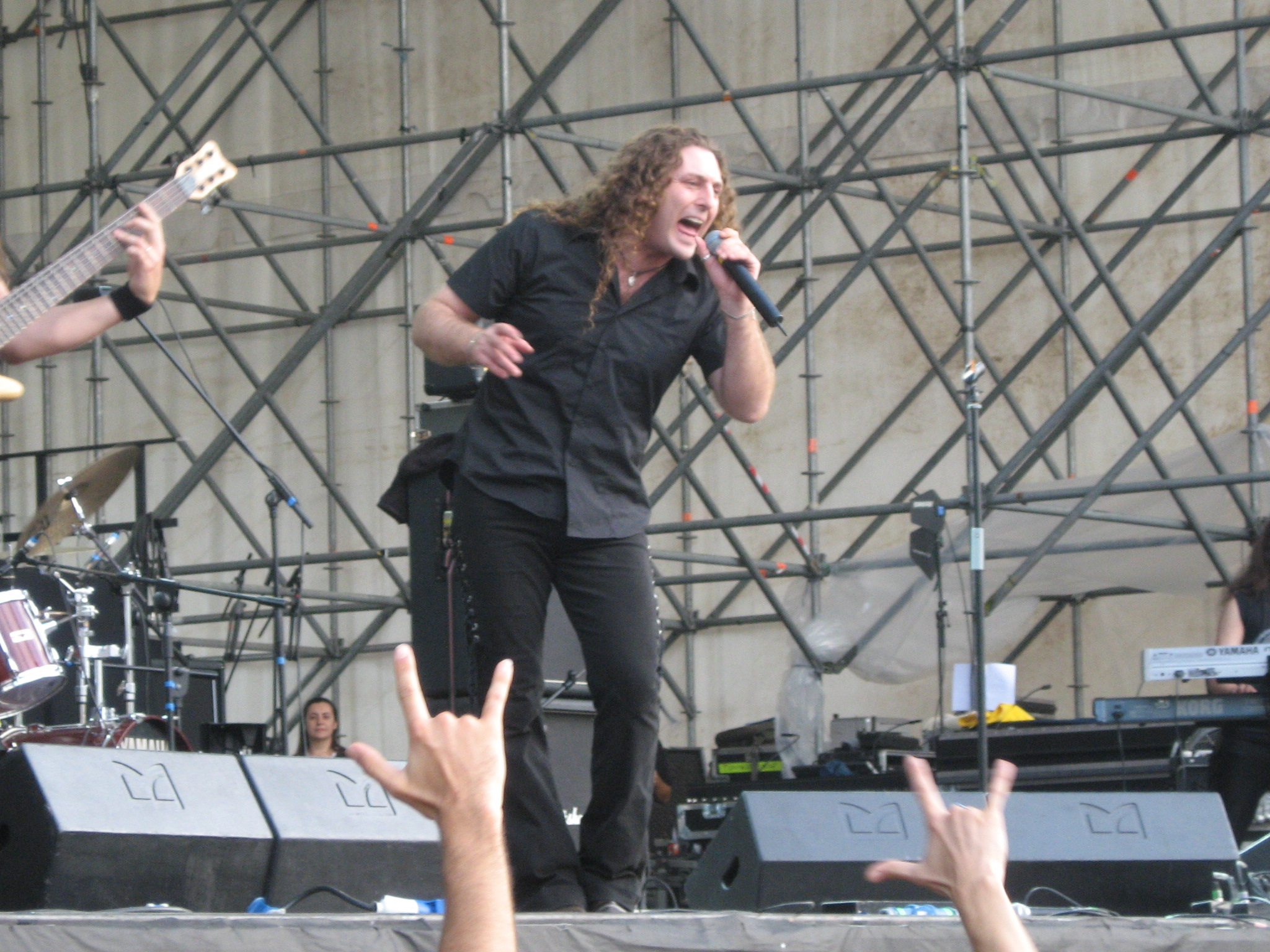 Vision Divine at Rockin' field festival in Milan, Italy (26 July 2008)